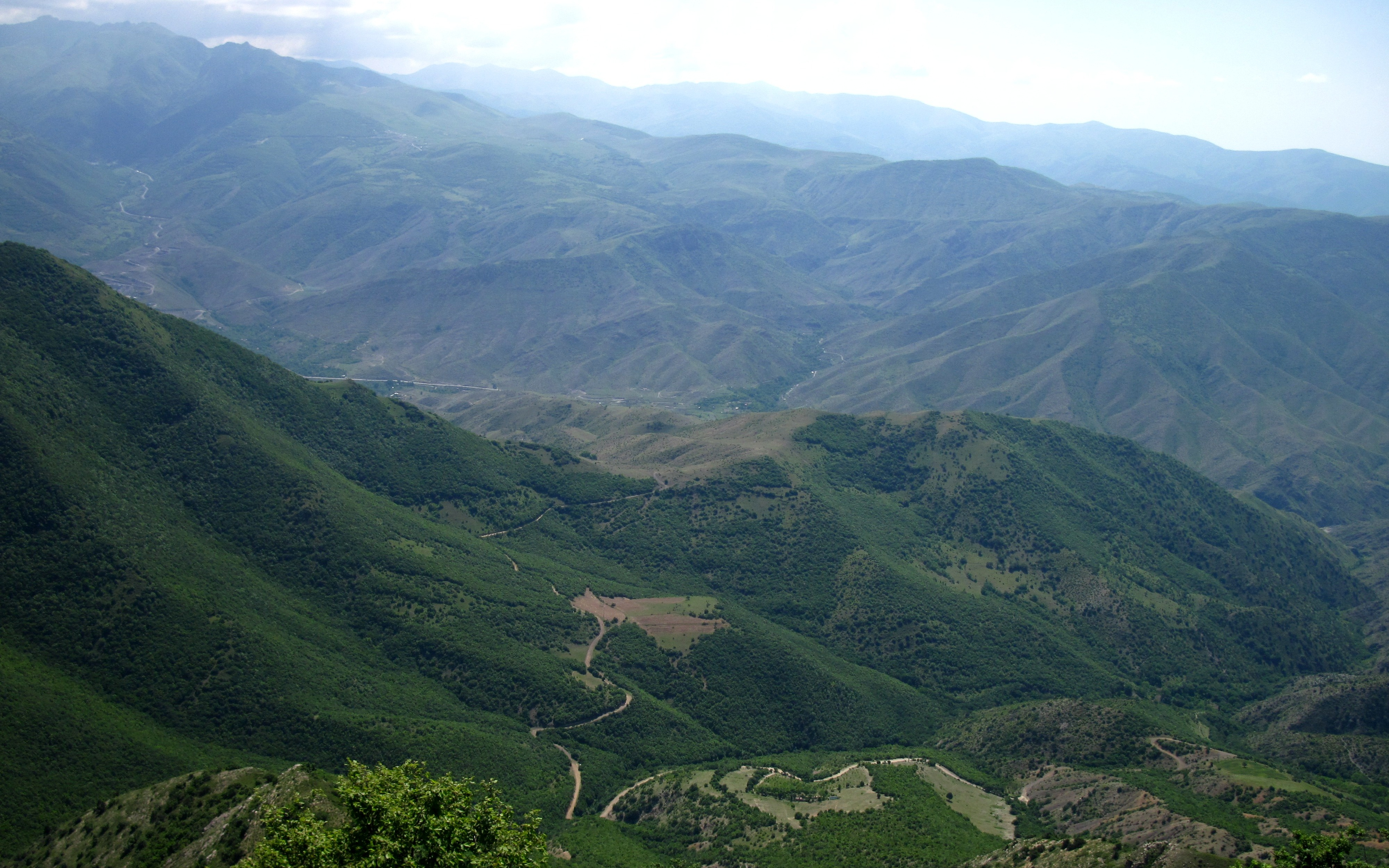 This photo of Sowmaeh, Kaleybar was taken by Ravanbakhsh Leysi.